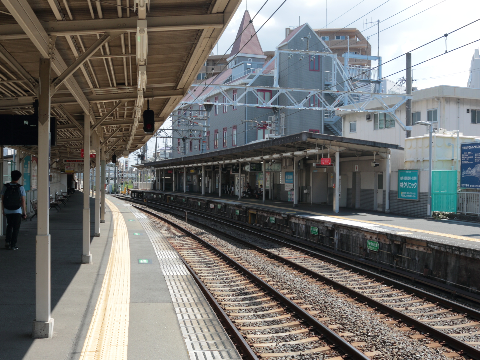 The platforms at Senri-yama Station in Osaka Prefecture, Japan